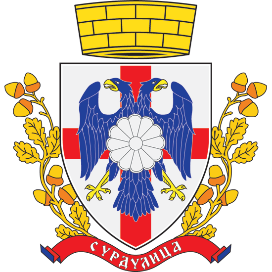 Middle coat of arms of Surdulica